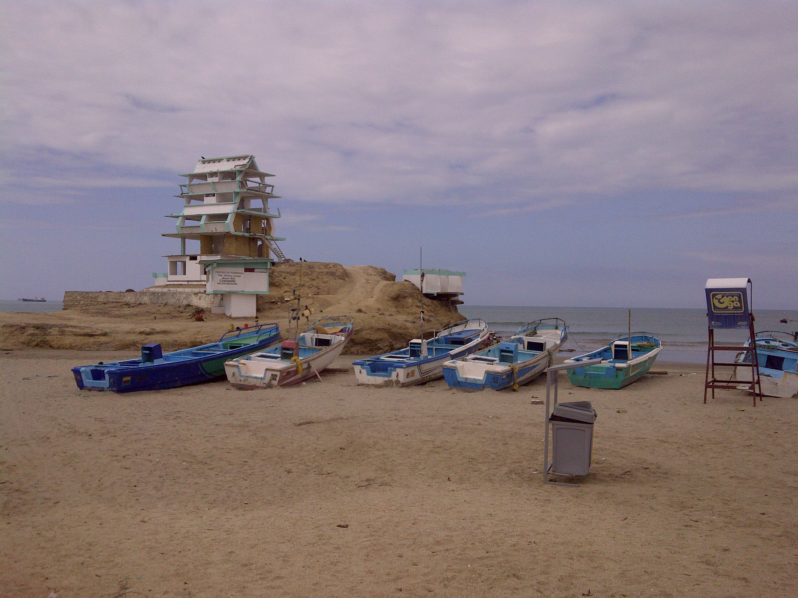 Playa de Chulluype